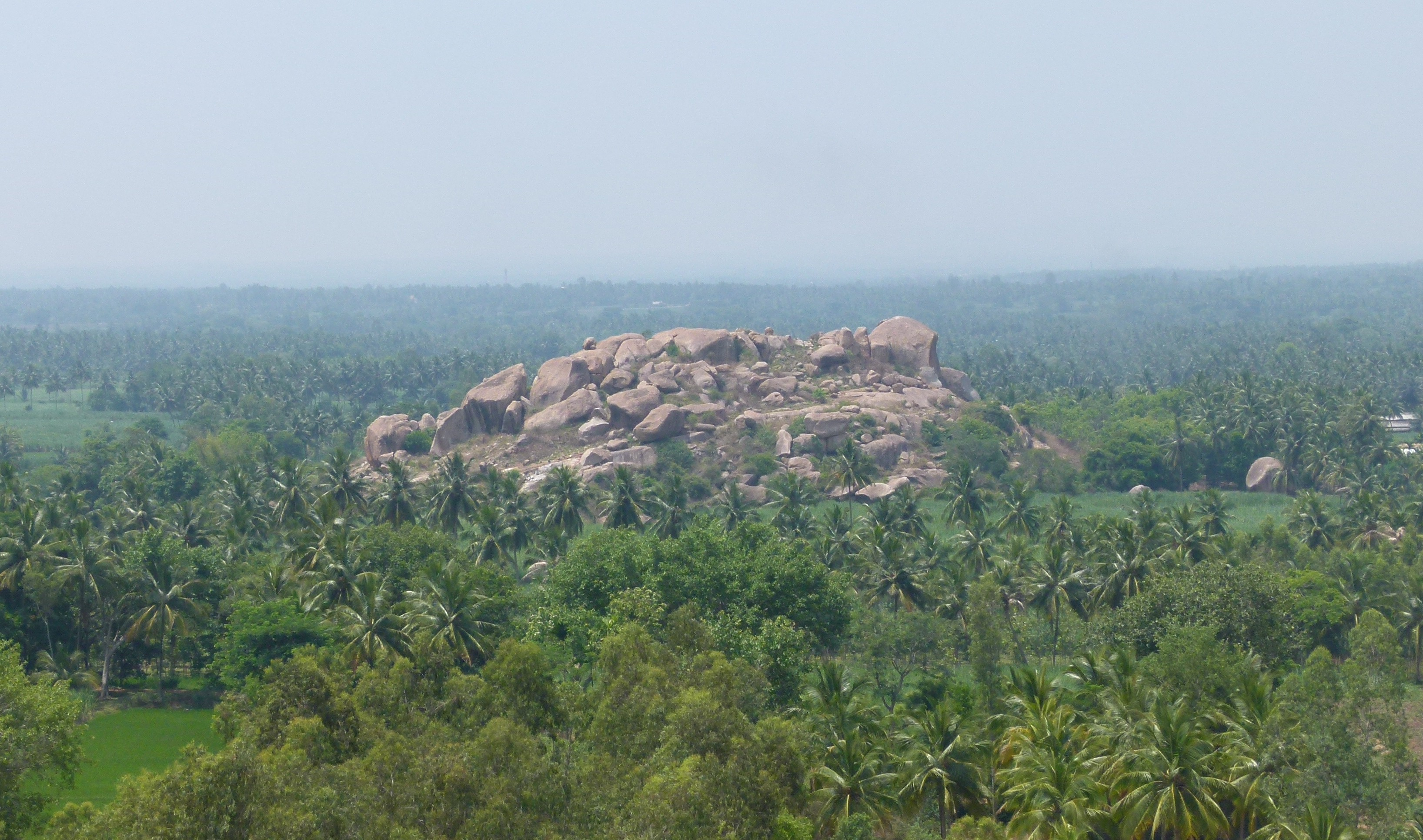 View from Kunthi Betta (French Rocks), Pandavapura looking south